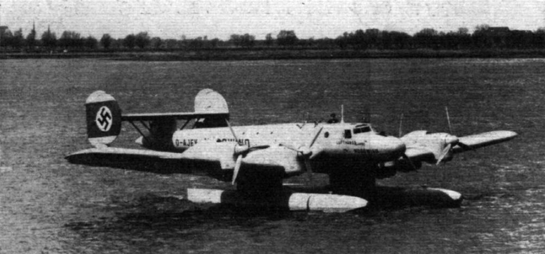 The German Lufthansa Blohm & Voss Ha 139 "Nordwind".